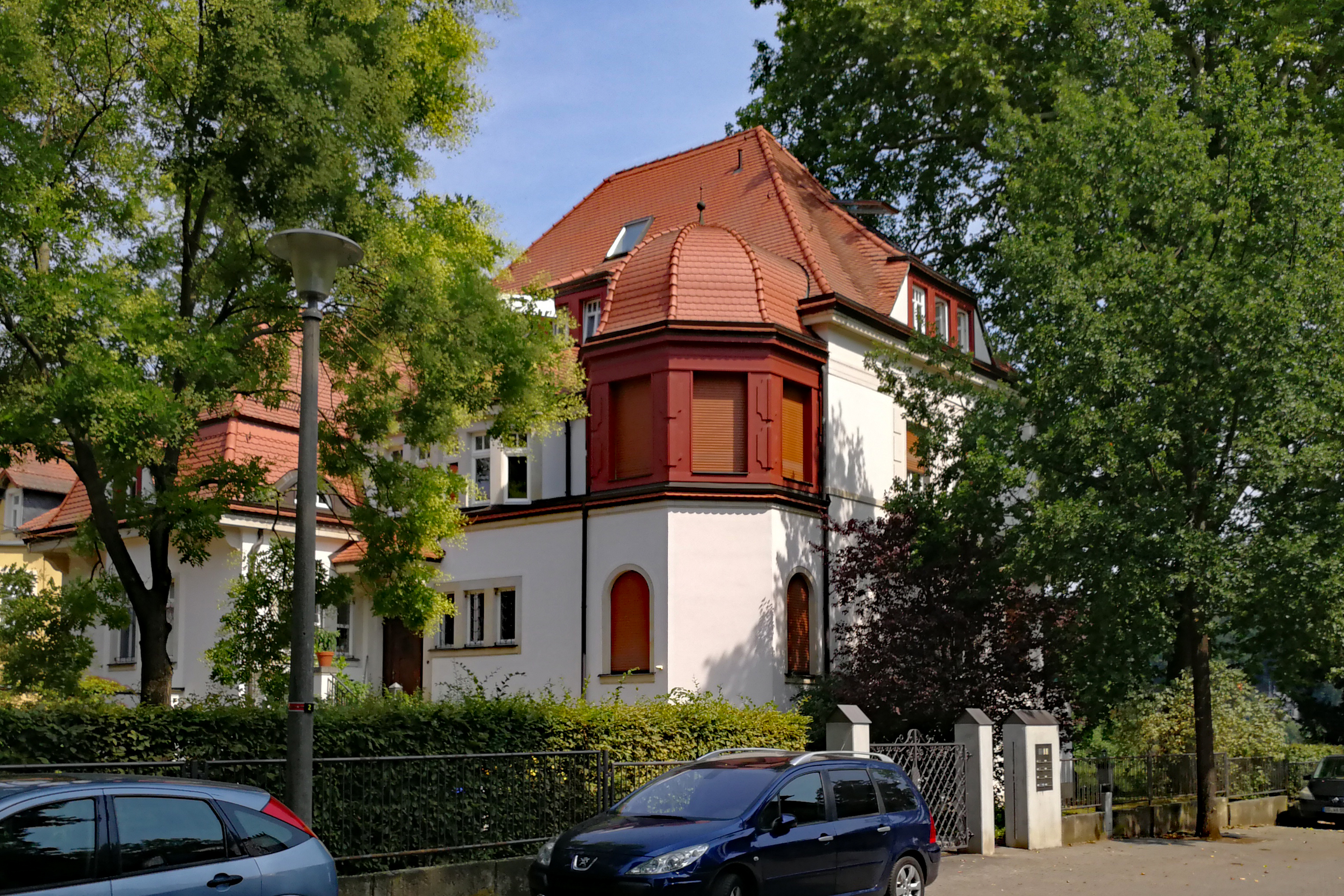 Villa Dudek, Regerstraße 2, Dresden-Blasewitz, Saxony, Germany